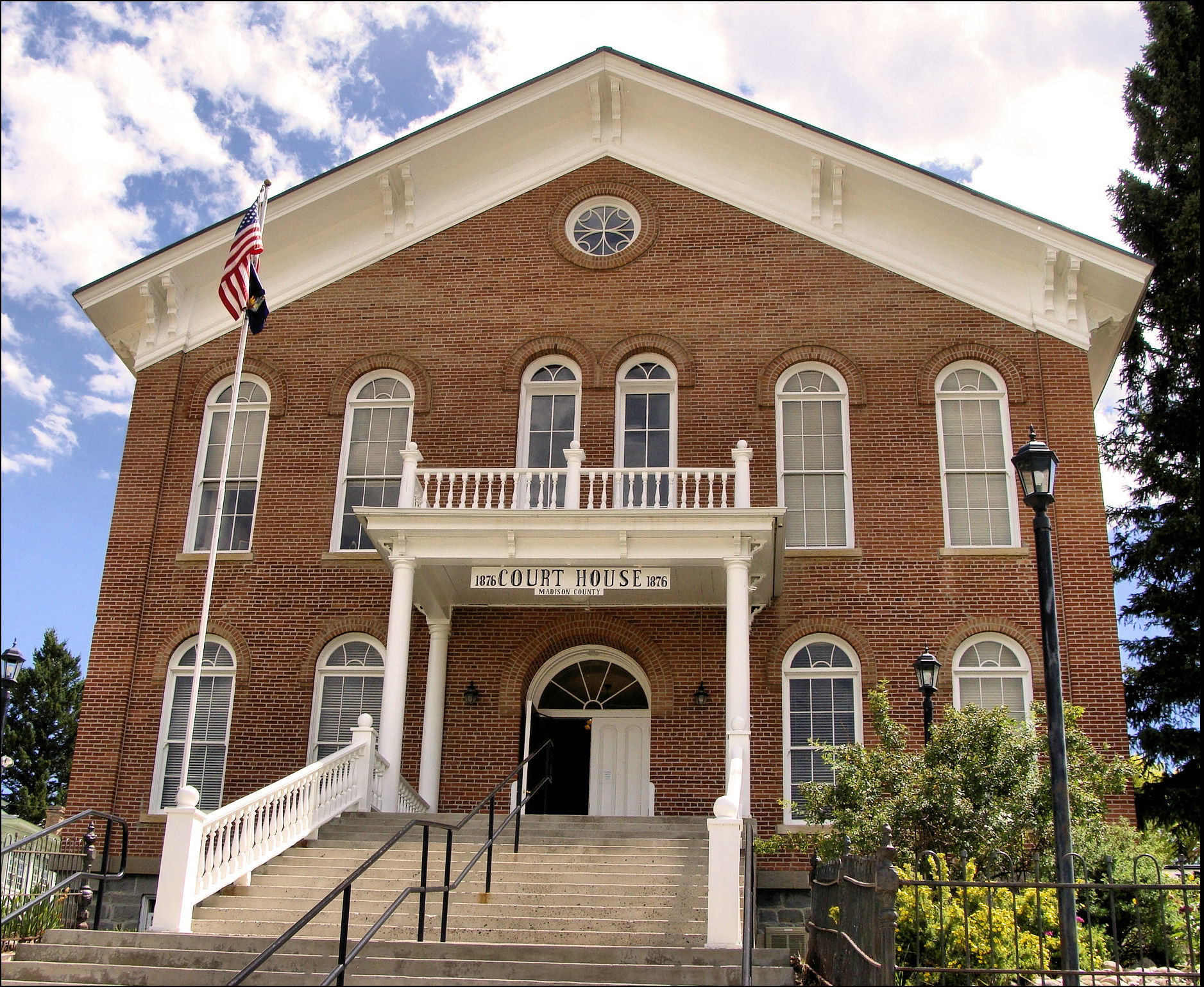 When Virginia City, the county seat of Madison County, was incorporated early in 1864, it was then part of the Territory of Idaho. When Montana Territory was formed a short time later Madison County became one of its eight original counties. The new Montana Territorial Legislature named Virginia City as the territorial capital in the Legislature Act of 1865, moving the seat of government from Bannack. Virginia City lost the honor of being Territorial capital to Helena in 1875, but the town remains. Tourism has replaced mining, and she has retained the seat of county government. Click here to read more about this building..